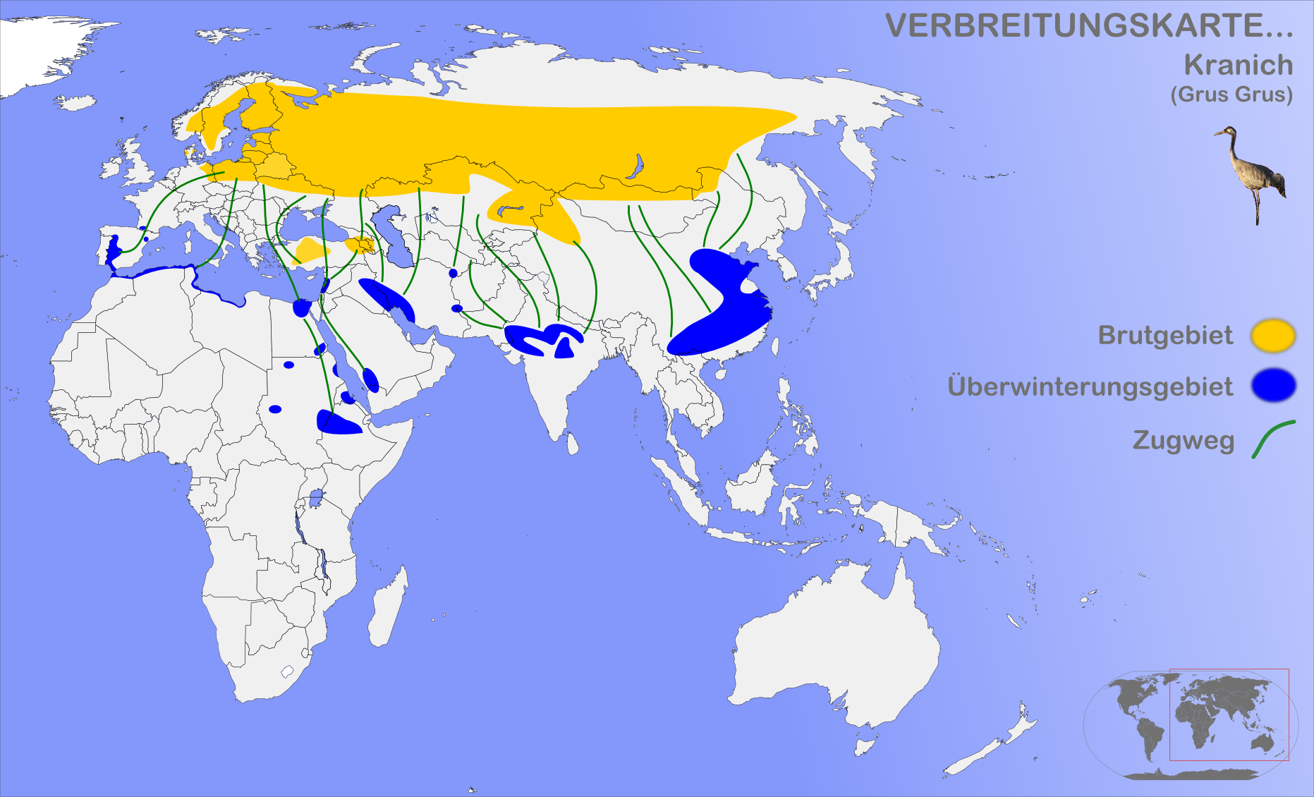 habitats of the Kranich (Art)